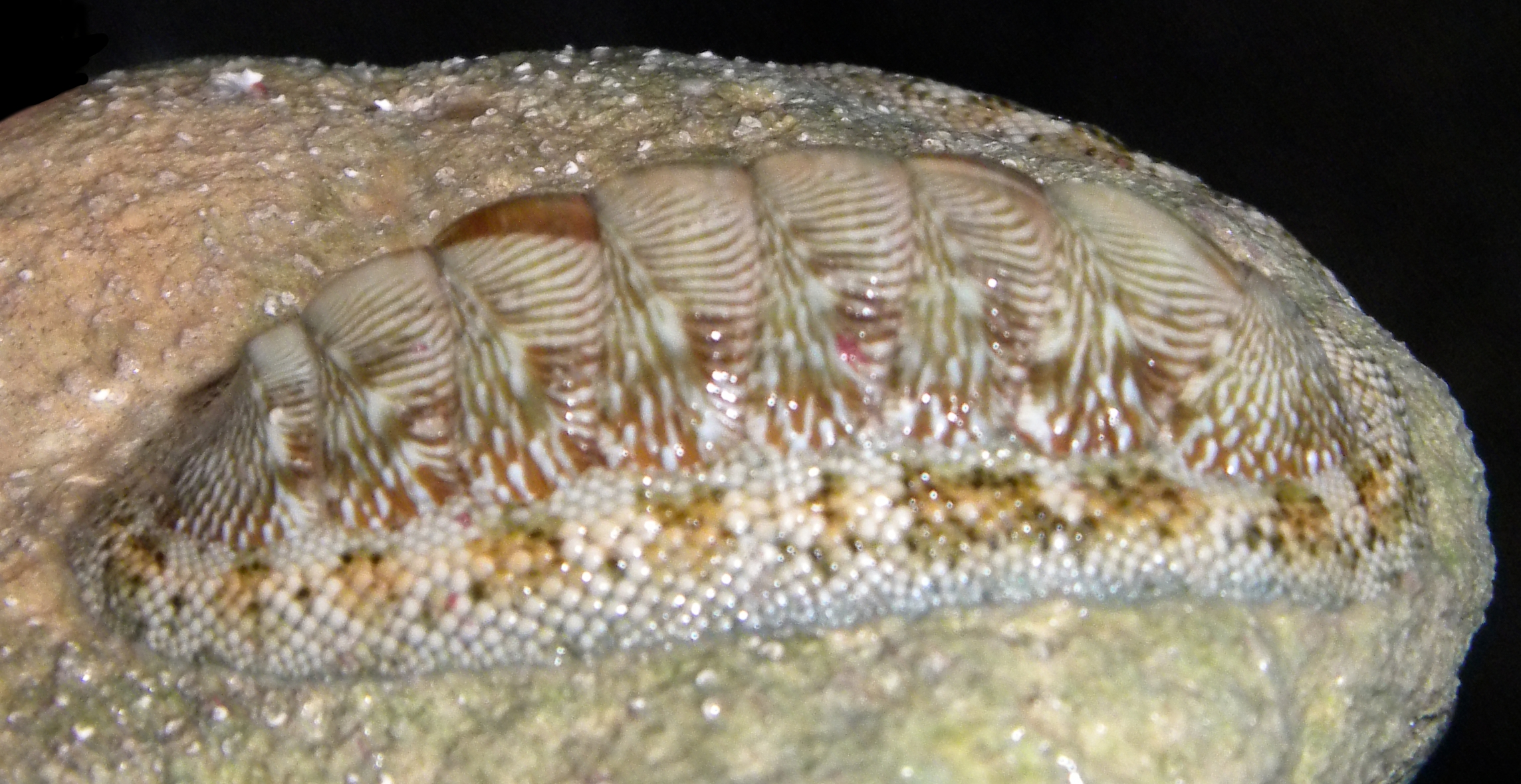 Chiton tuberculatus. Photo taken at night on the stone moved away from water.